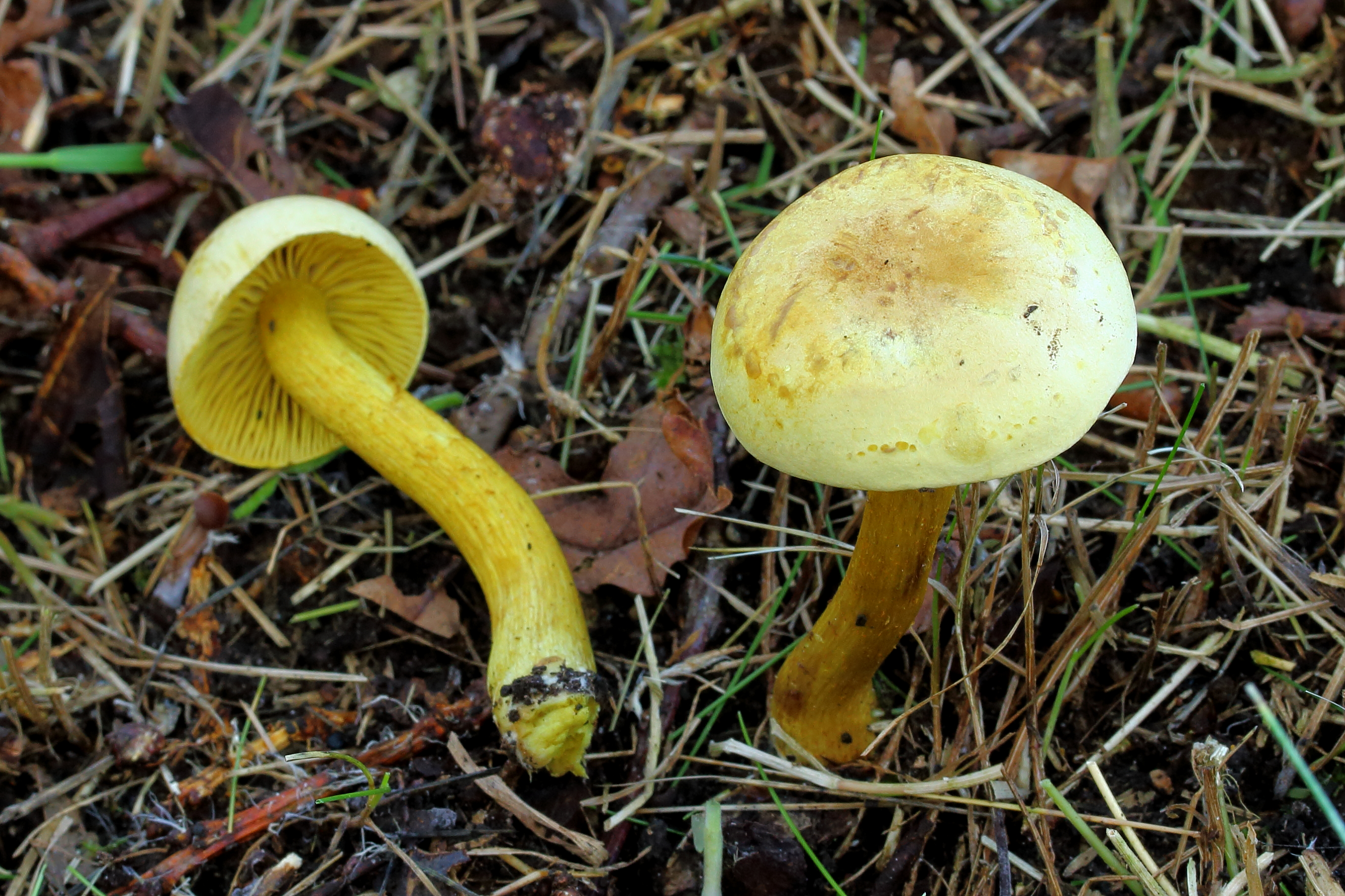 Narcis Knight mushroom (Tricholoma sulphureum) Location, Hortus (Haren, Groningen).